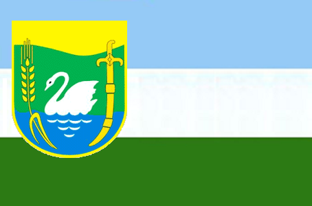 Flag of Lebedinskij district (Ukraine)